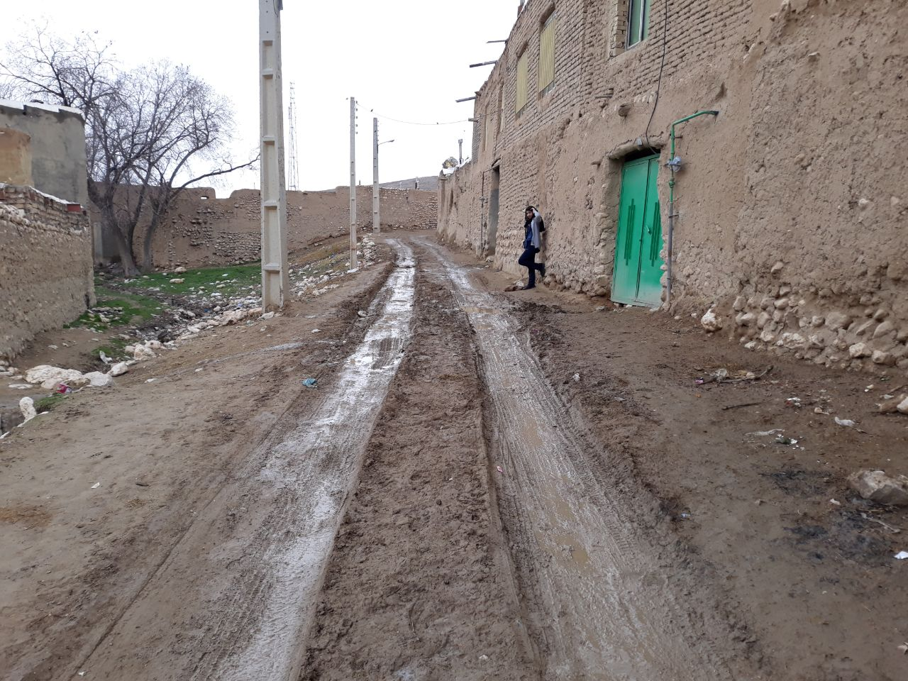 Street vezendan